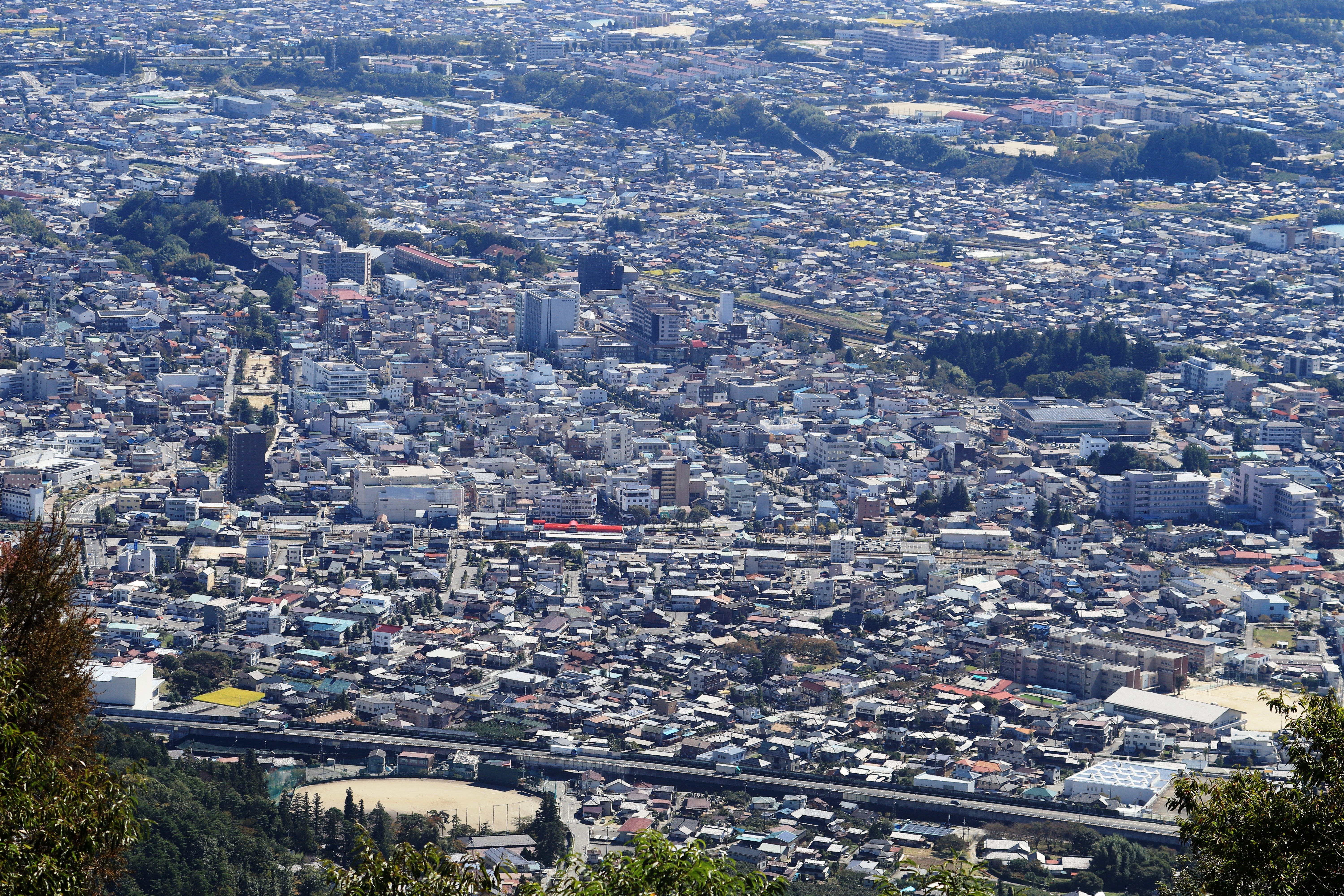 Iida City around Iida Station seen form Mount Kazakoshi (Mount Kokuzo) in Nagano Prefecture, Japan.